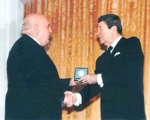 In 1986 President Ronald Reagan awarded Frank Piasecki with the National Medal of Technology